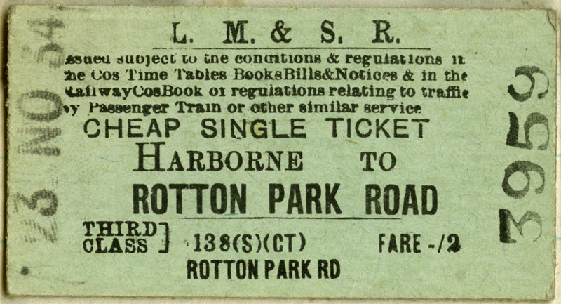 LMS Harborne to Rotton Park Road third class railway ticket. Issued on 23 November 1934. Wingate Bett Transport Ticket Collection Vol.86-283.